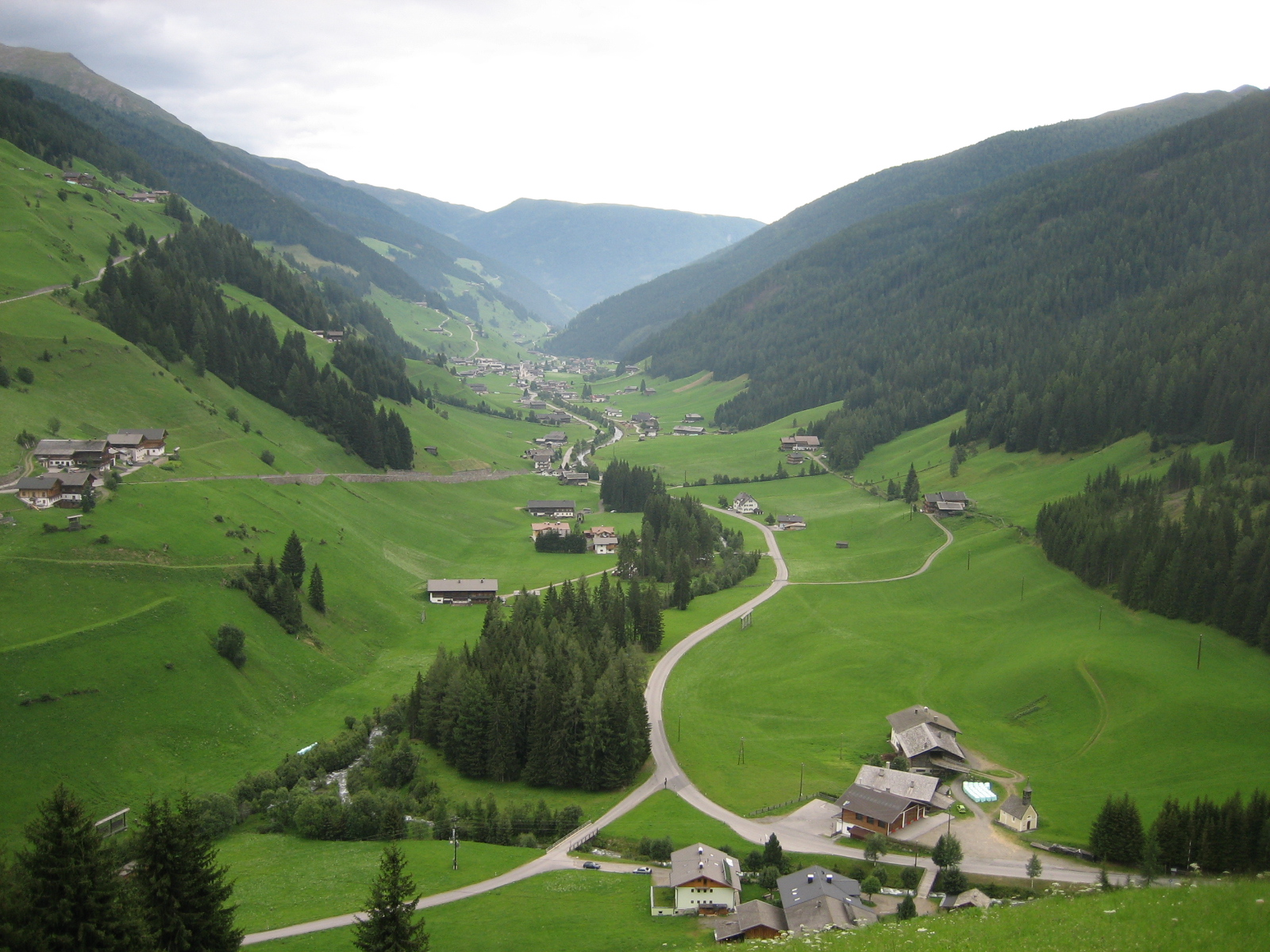 Villgratenbach valley looking east-south-east, towards the village of Innervillgraten.